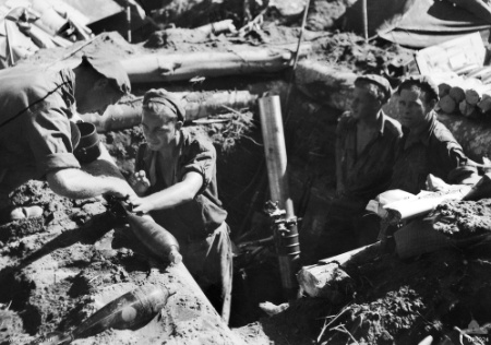 Australian War Memorial image 079024. A 4.2 Inch mortar of the Australian Army's 101st Brigade Support Company in action during the 31st/51st Battalion's attack on Tsimba Ridge.